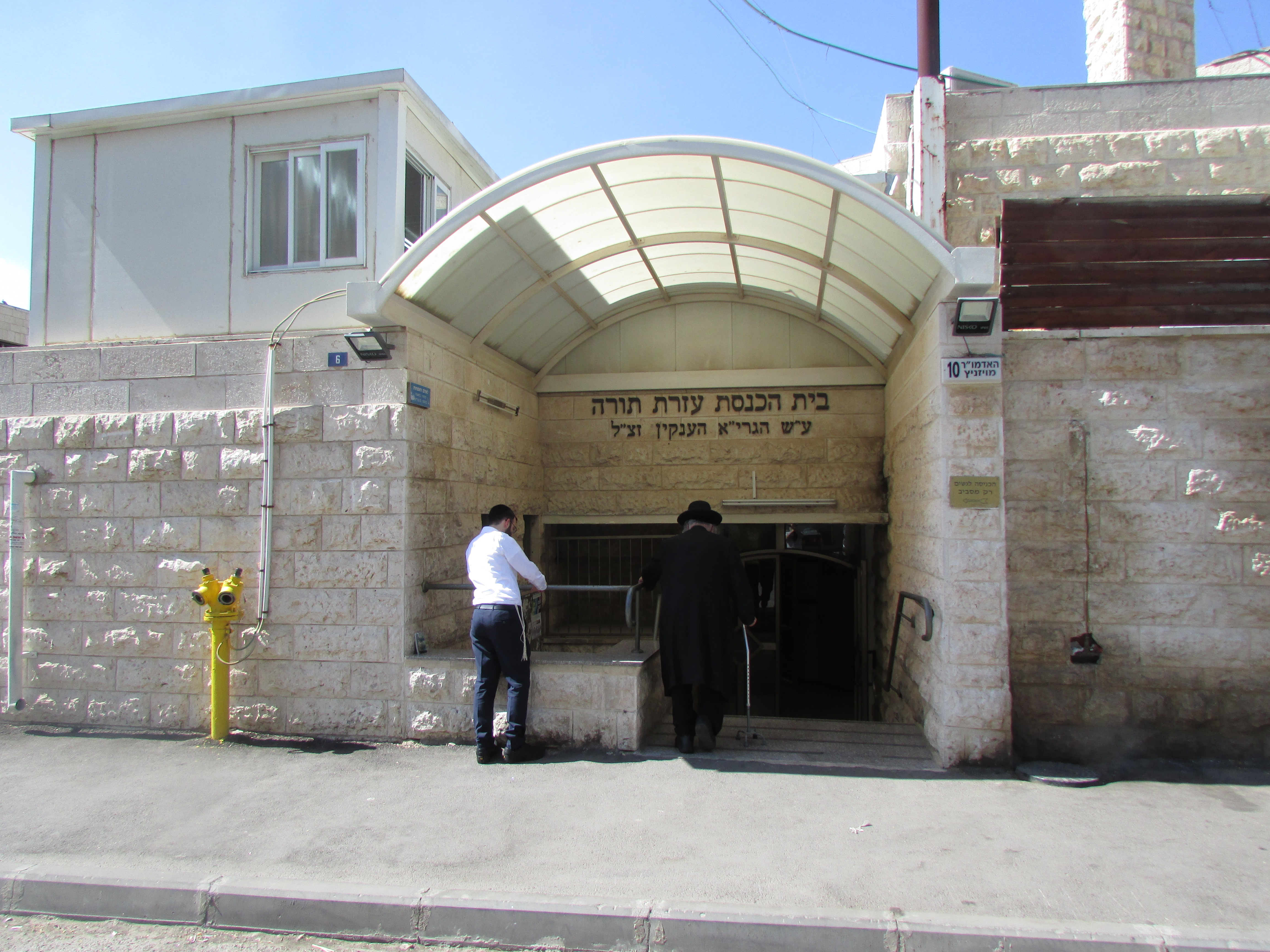 Ezrat Torah Sanhedria Hamurchevet in memorial of Bebbi Eliyahu Henkin.